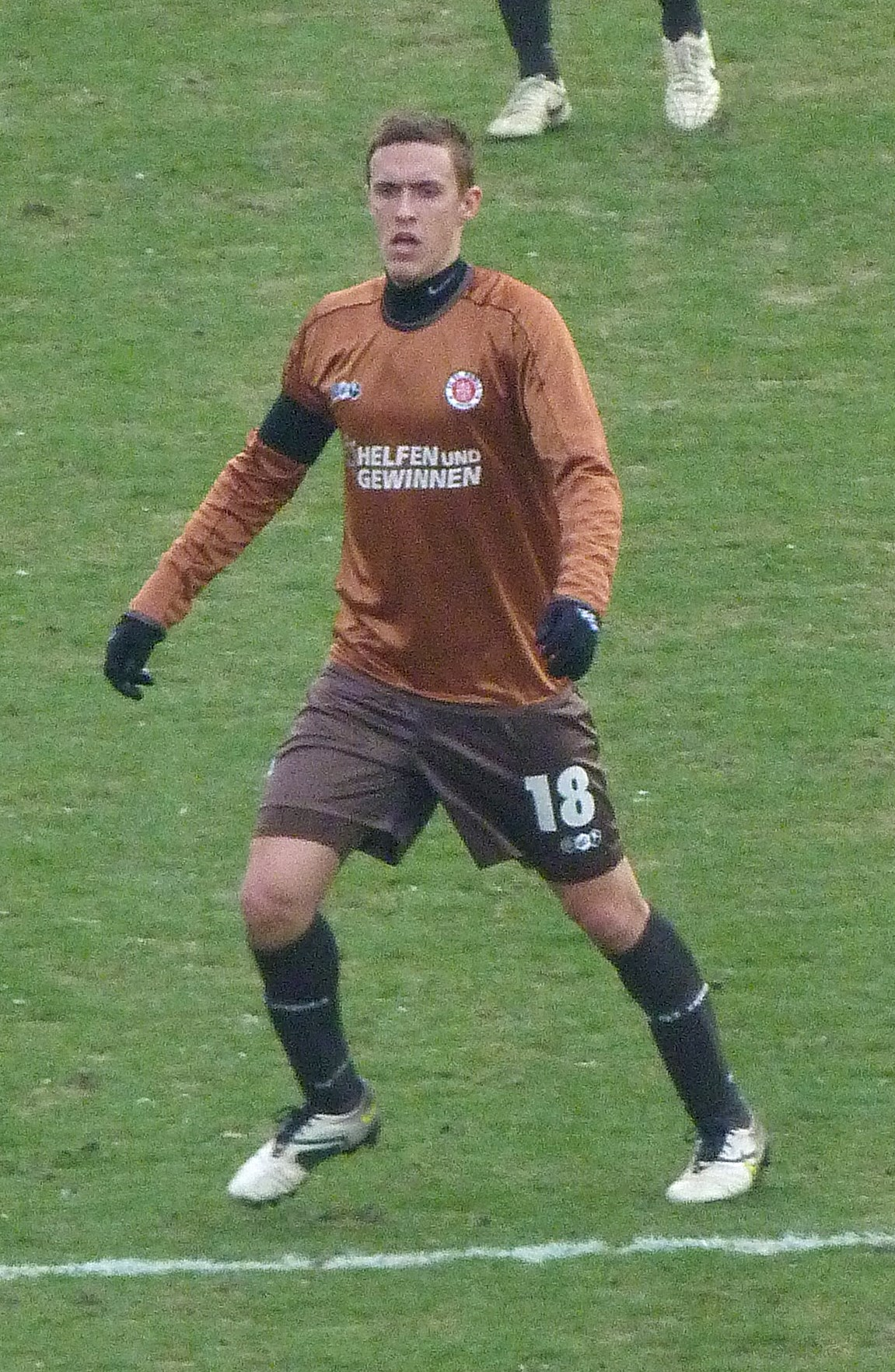 Max Kruse playing for FC St. Pauli